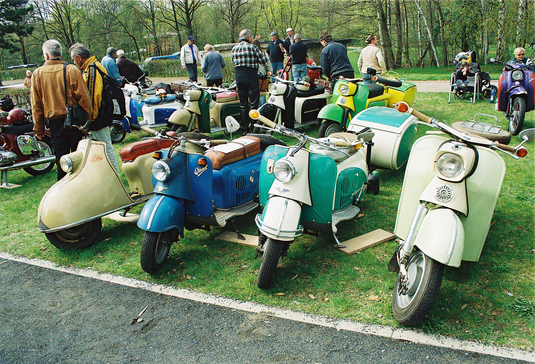 Four Scooters from the 1950s and 1960s, made by the VEB Industriewerke Ludwigsfelde (IWL), GDR - Pitty, Wiesel, Berlin (with trailer), Troll